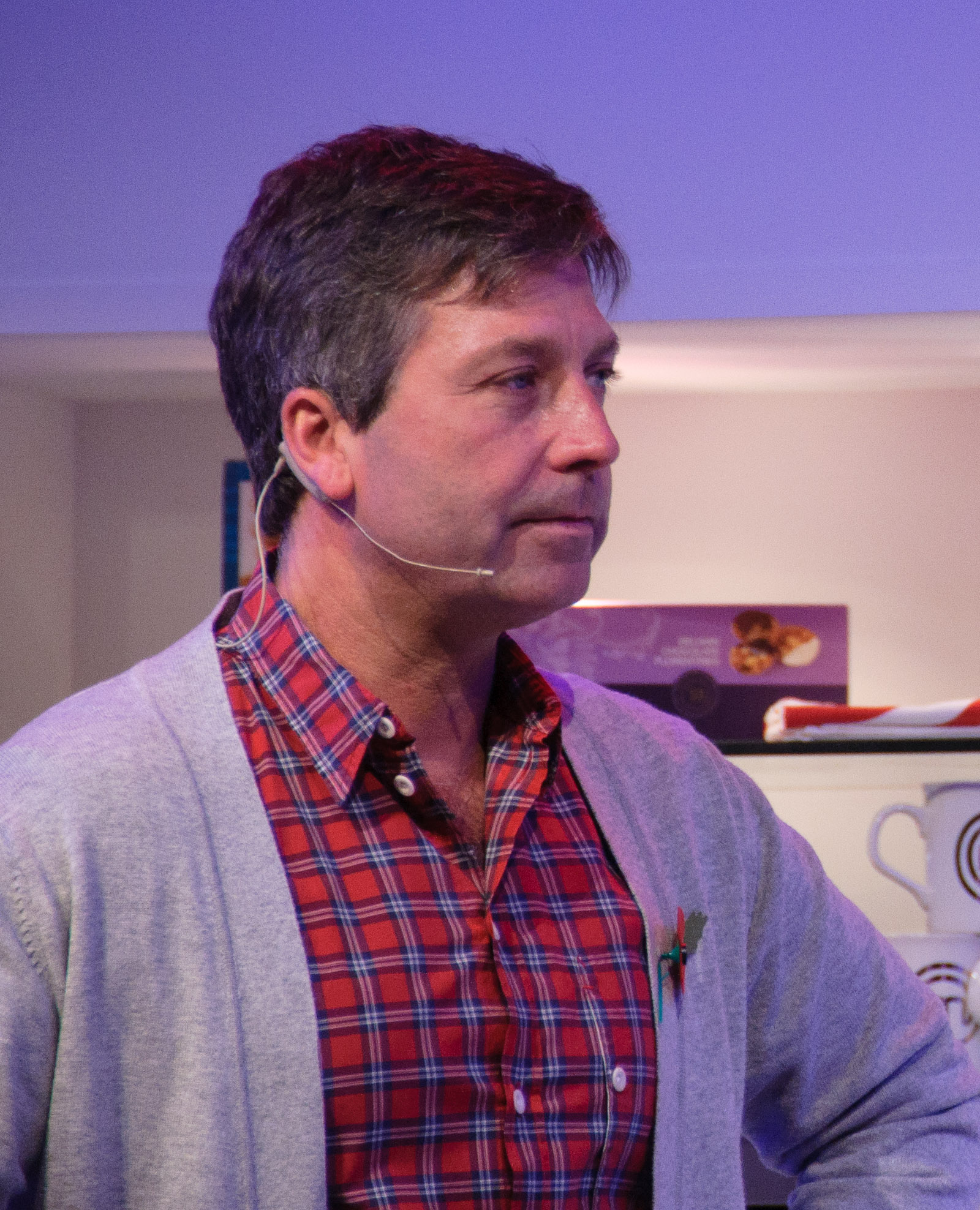 Judge John Torode at Masterchef Live 2010 in London.